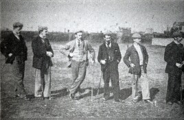 Pau Golf Club 1856, players in 1896